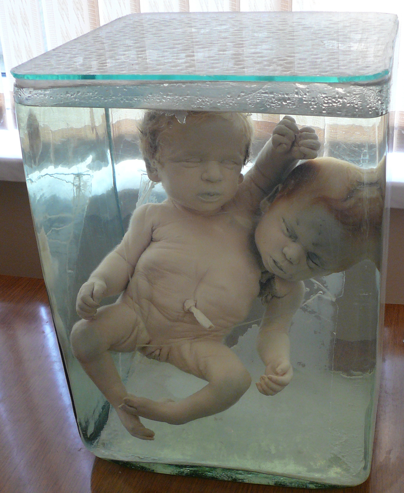 Two-headed girl. Anatomical museum, Baku, Azarbaidzhan